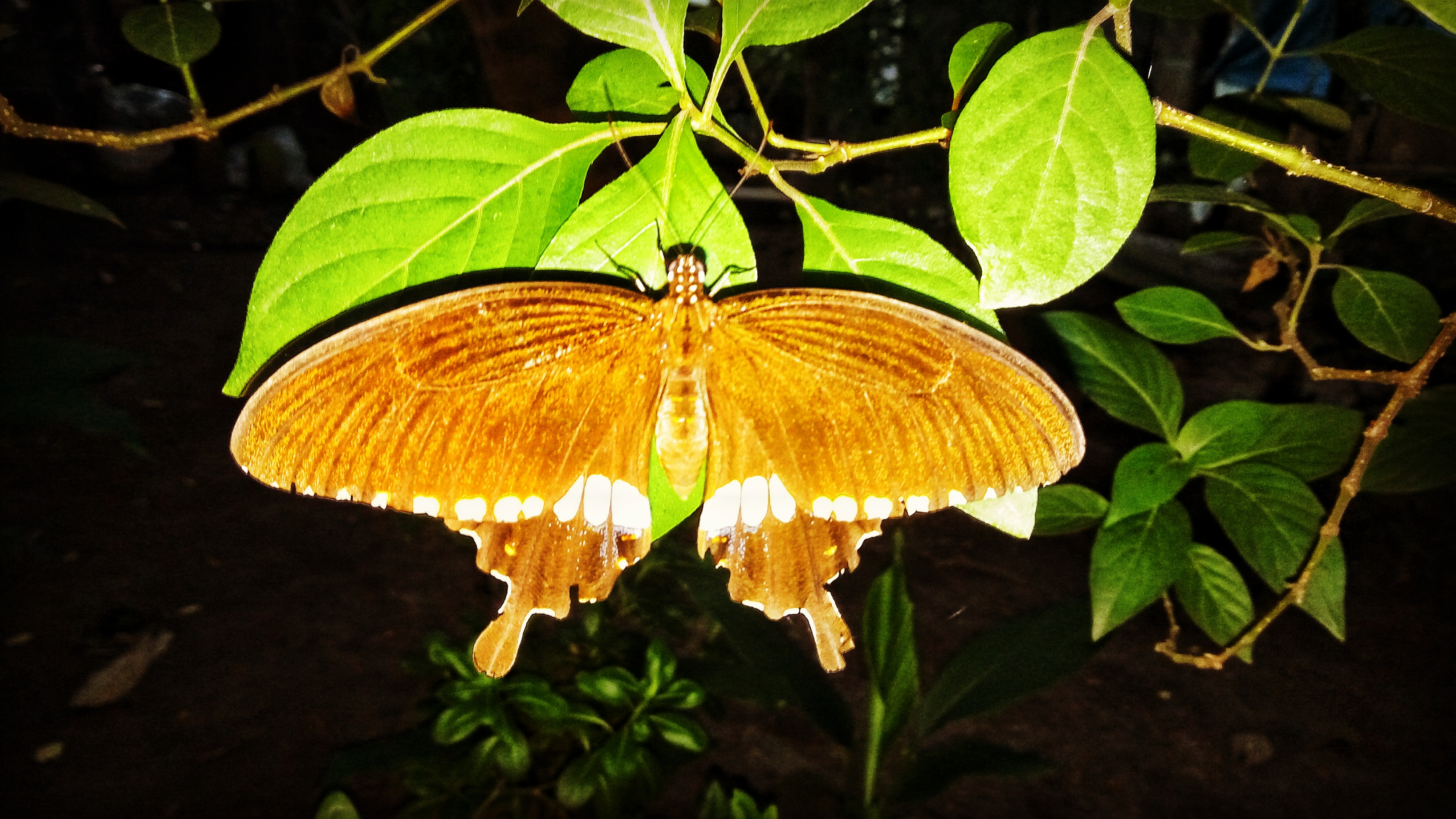 butterfly glow